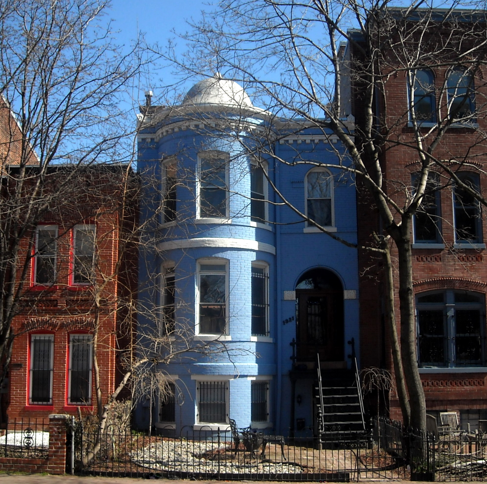 A row house located at 1921 17th Street, N.W., (at the intersection of 17th and Willard Streets, N.W.) in the Dupont Circle neighborhood of Washington, D.C. Built around 1893, the brick, Italianate-style home is designated as a contributing property to the Strivers' Section Historic District, listed on the National Register of Historic Places in 1985. Previous occupants have included Frederick Vernon Coville (and his wife, Elizabeth Harwood Boyton Coville), chief botanist for the U.S. Department of Agriculture, author of 170 scientific works, helped establish the U.S. National Herbarium, and supervised the establishment of the United States National Arboretum; and Vernon Orlando Bailey, a pioneering naturalist and mammalogist, the first field agent of the Division of Economic Ornithology and Mammology, author of 244 scientific works, and husband of Florence Augusta Merriam Bailey.